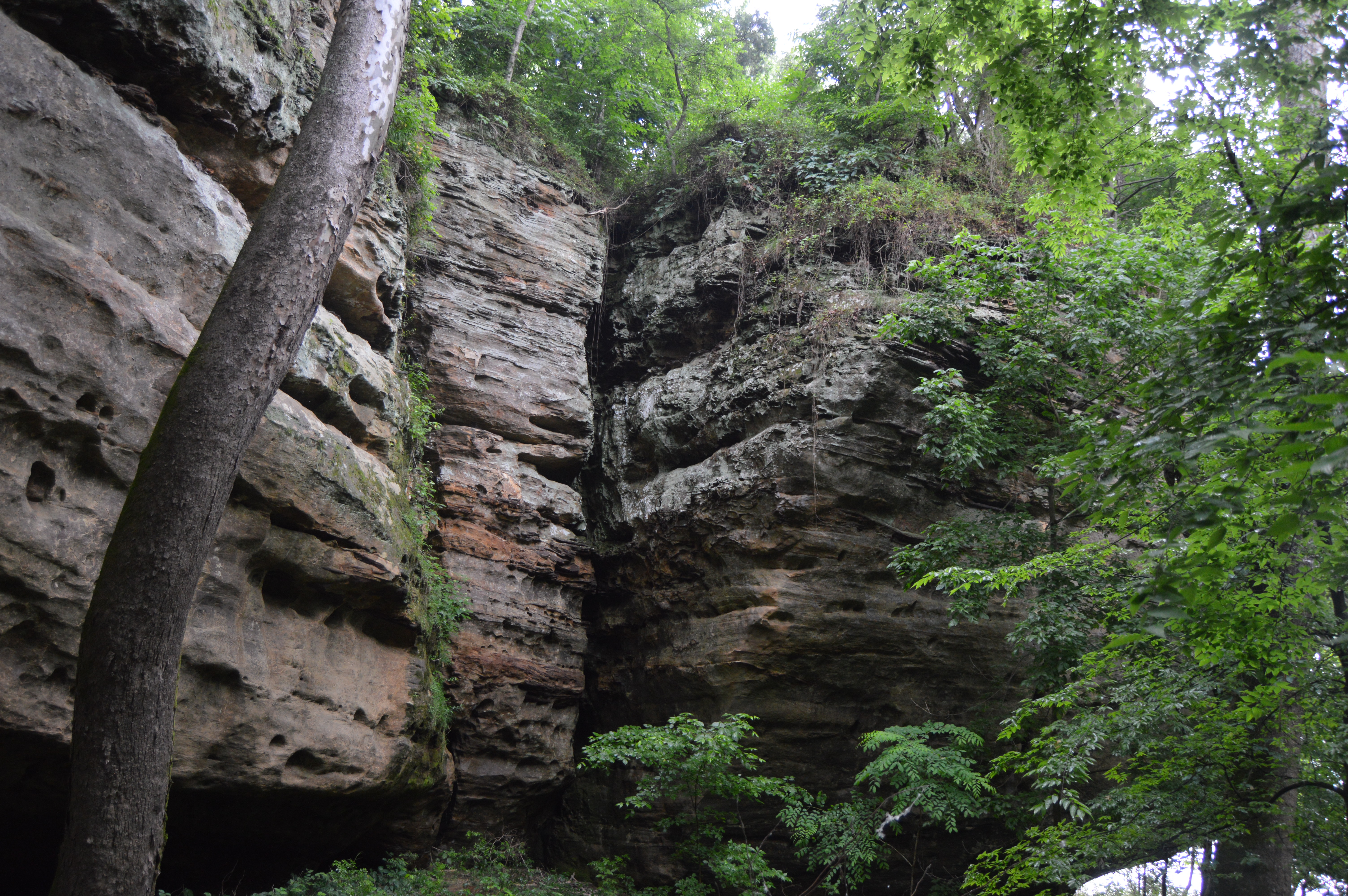 A cleft on the side of Battery Rock, located at a landing on the Ohio River in Hardin County, Illinois, United States. The site is listed on the National Register of Historic Places, partly because of its longstanding importance in river history, and partly because of a Civil War skirmish that was fought here.